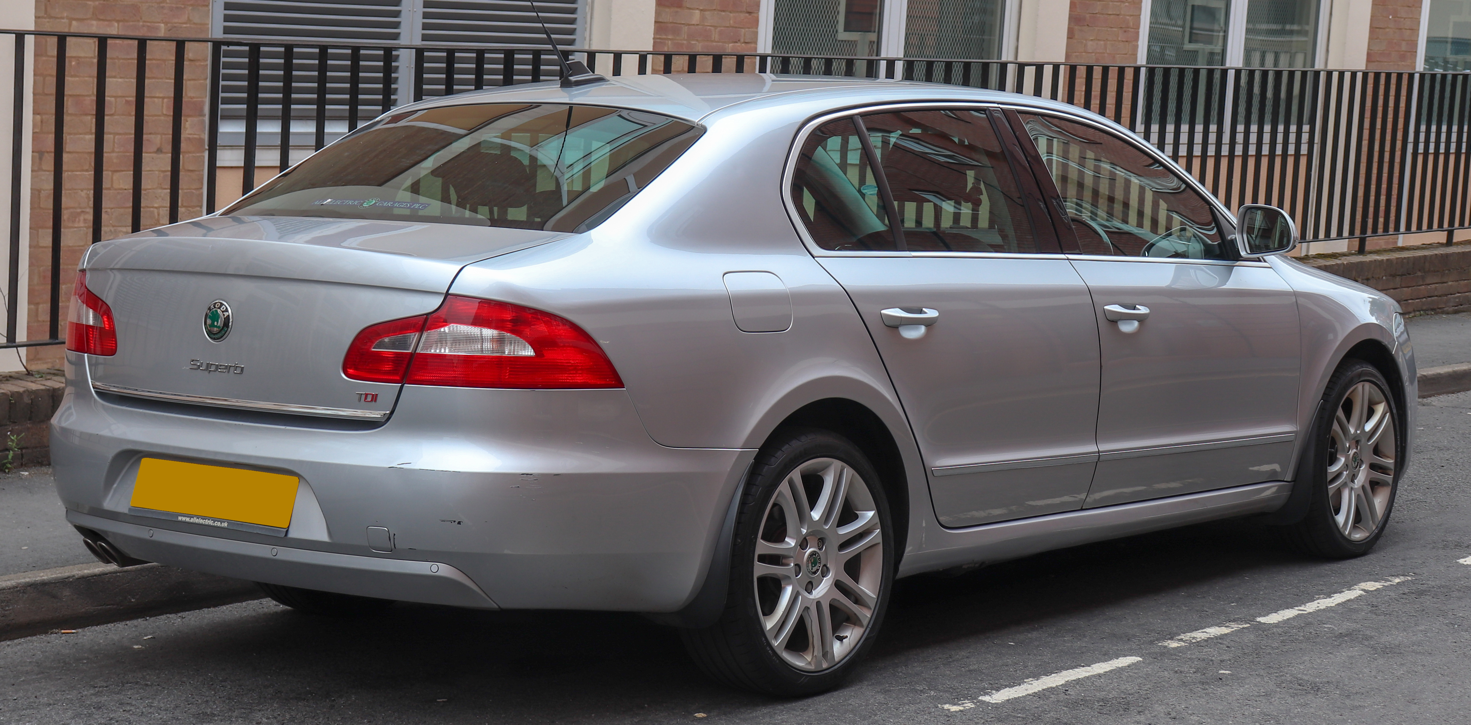 2009 Skoda Superb Elegance CRTDi Automatic 2.0 Rear Taken in Leamington Spa